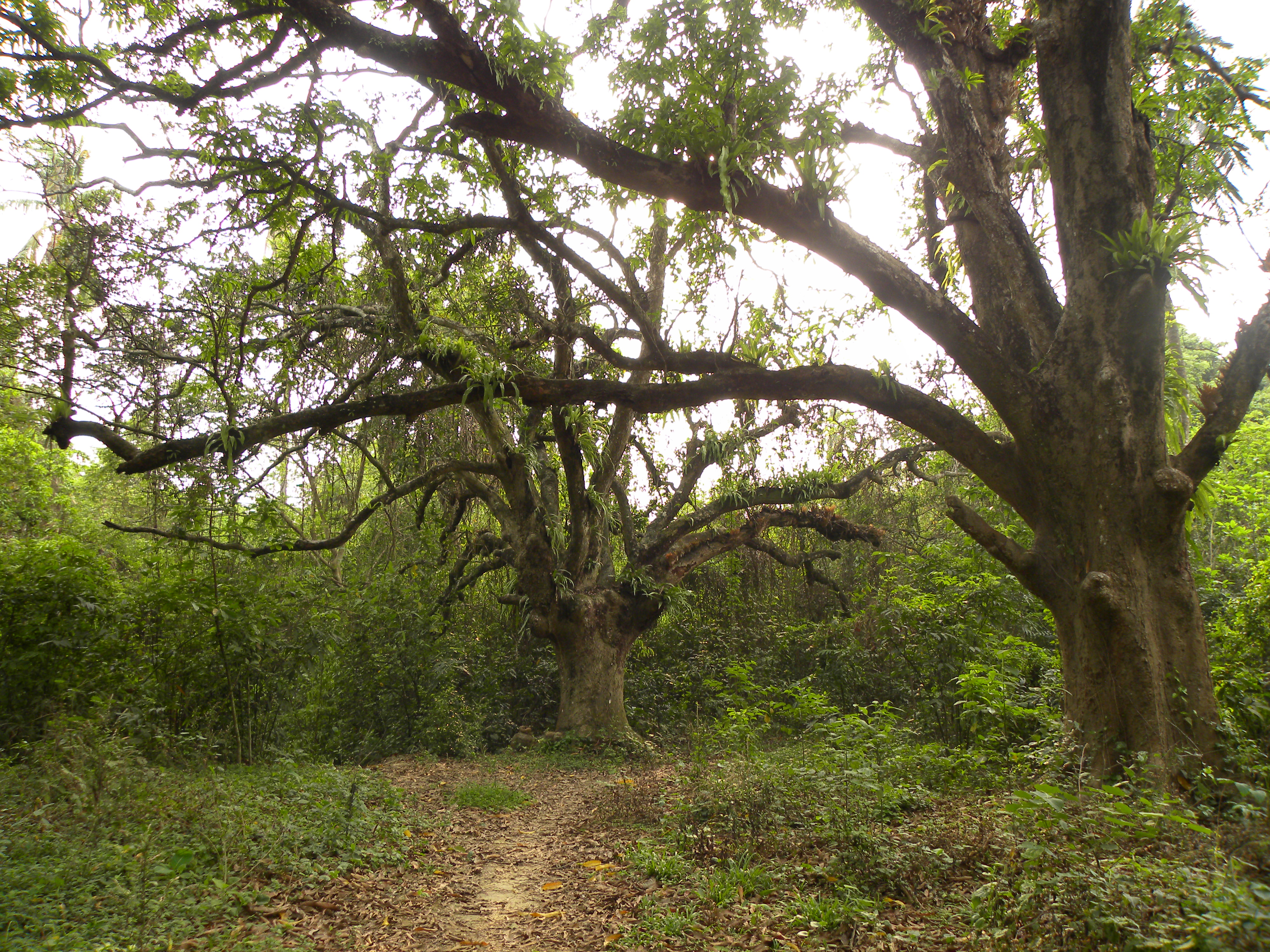 Inside Chintamani Kar Bird Sanctuary, Kolkata, India